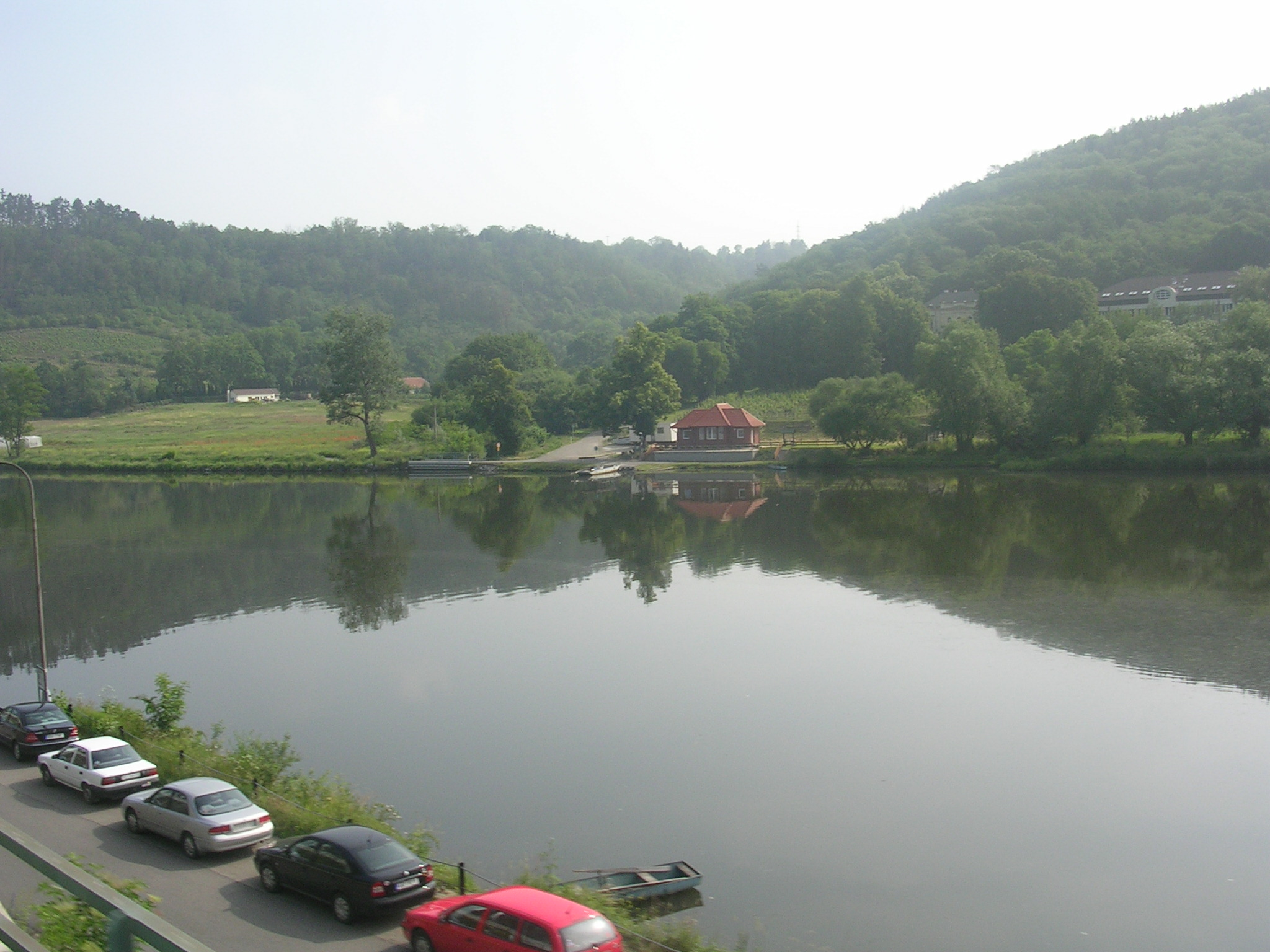 A ferry across the Vltava between Libčice nad Vltavou and Máslovice-Dol, the Czech Republic. - Google Maps - Google Earth